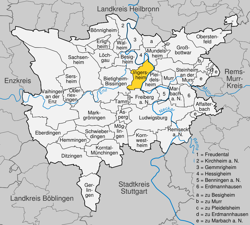 position of Ingersheim within distict of Ludwigsburg, Baden-Württemberg, Germany